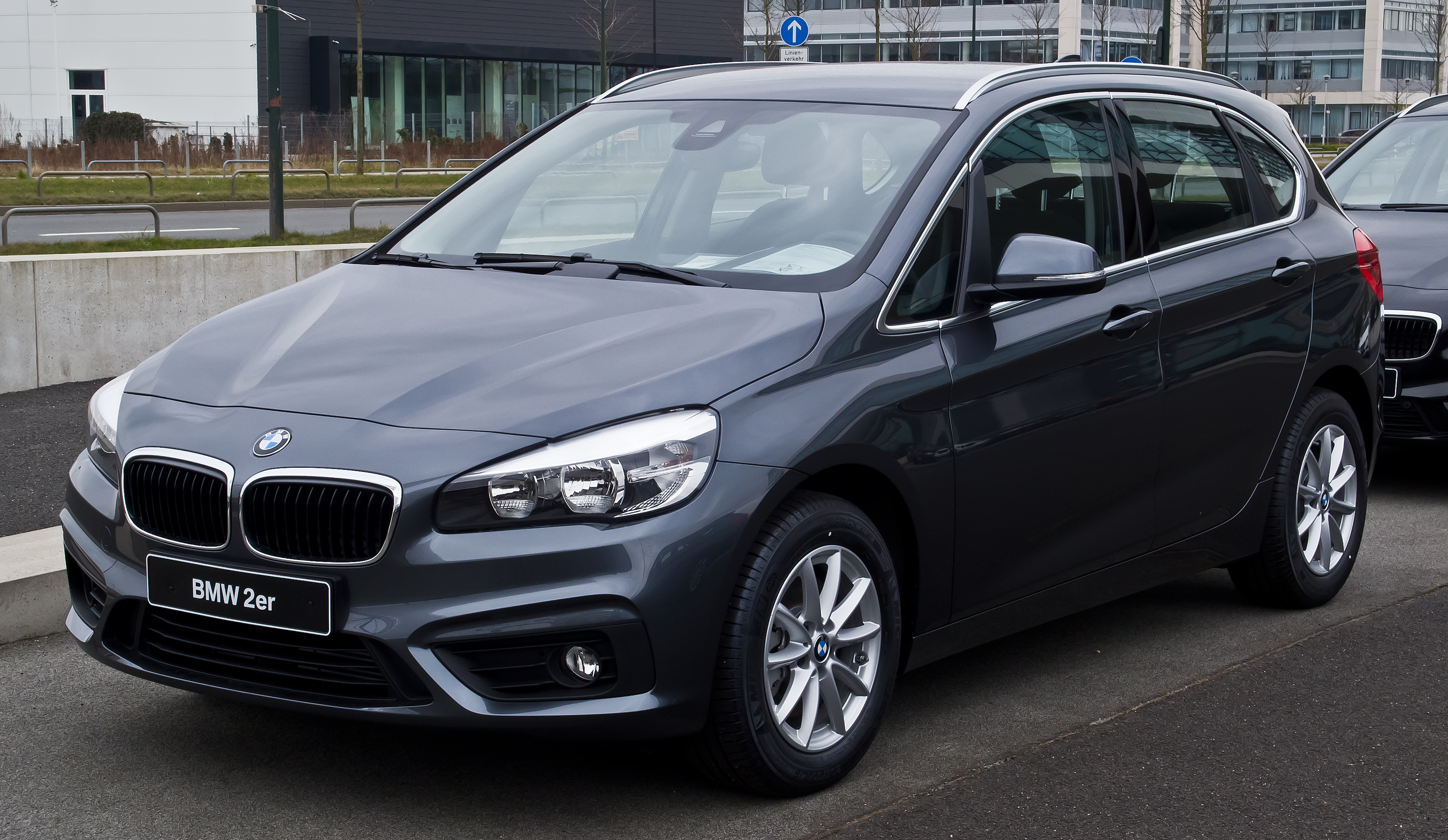 BMW 218i Active Tourer Advantage (F45)